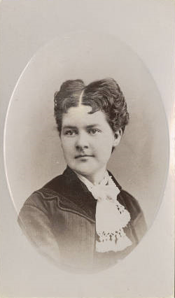 Portrait of Martha M. Hughes Cannon (1857-1932)